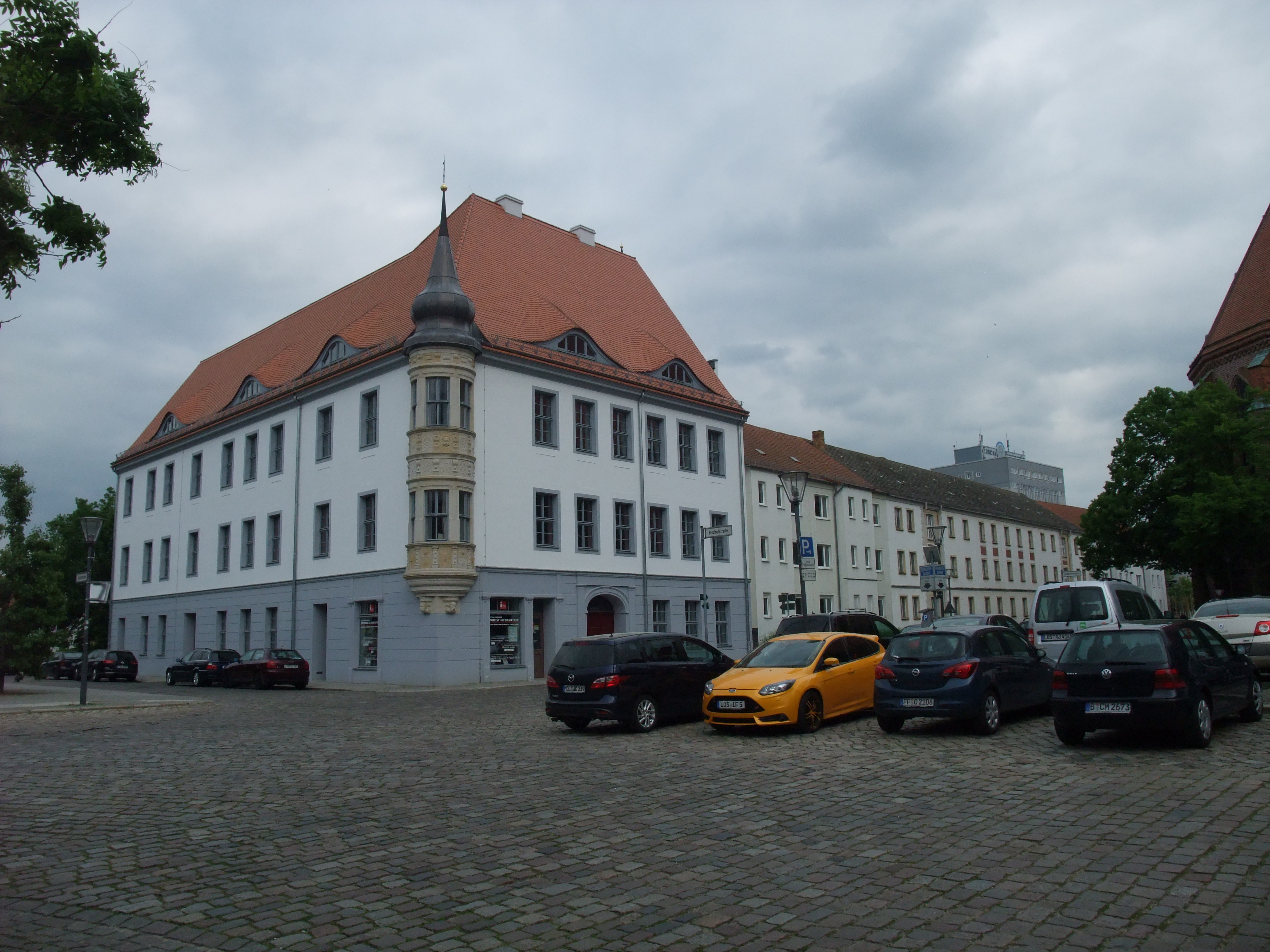 House Bolfrashaus in Frankfurt (Oder), Germany